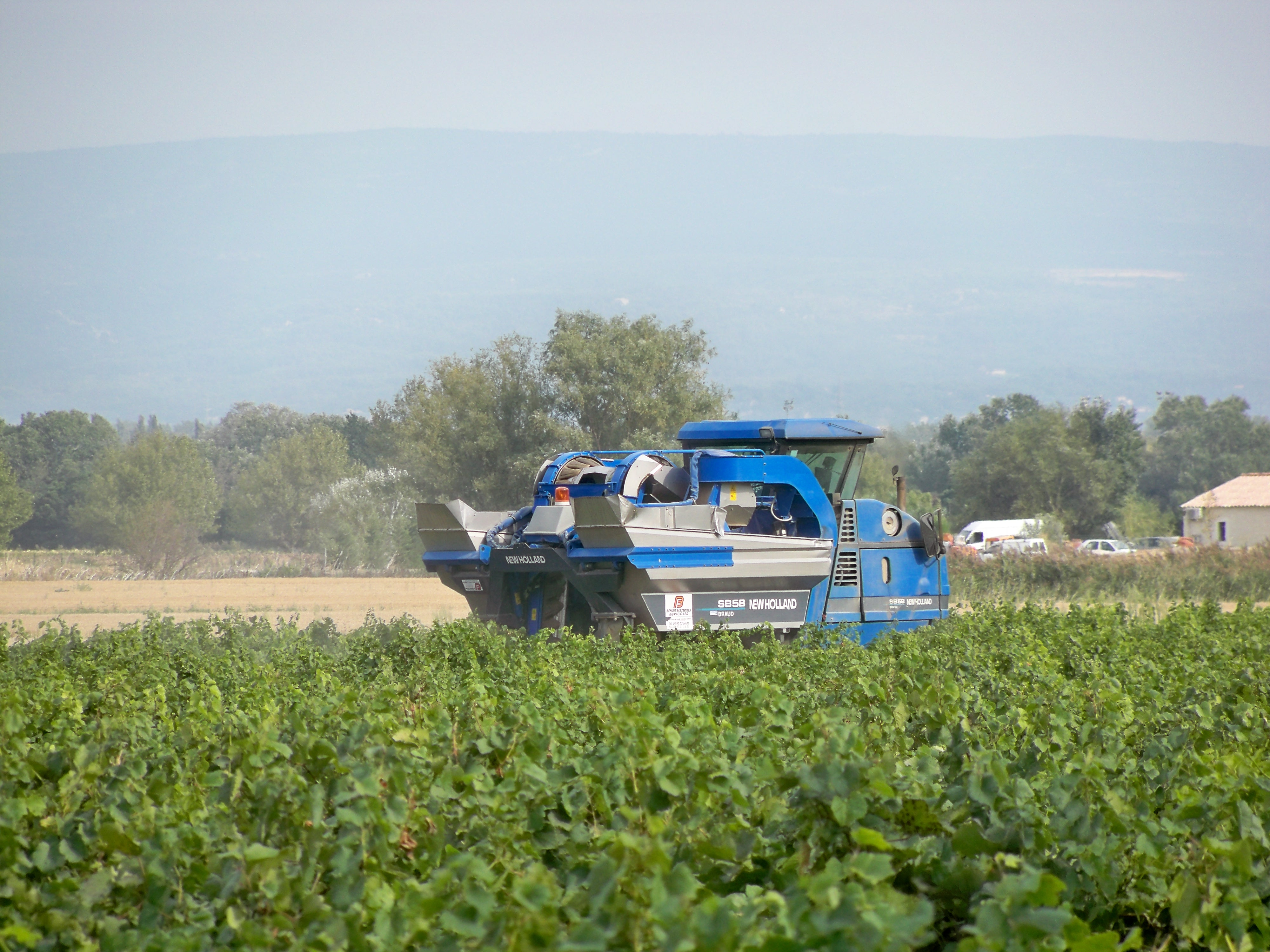 New Holland SB58 Braud Grape harvester, Sarrians (Vaucluse, France)